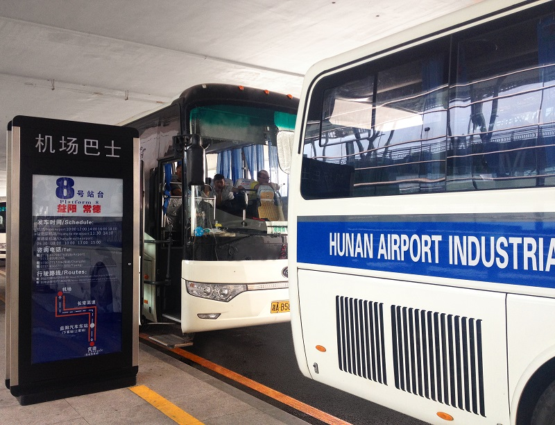 Airport coaches bound for different cities near Changsha